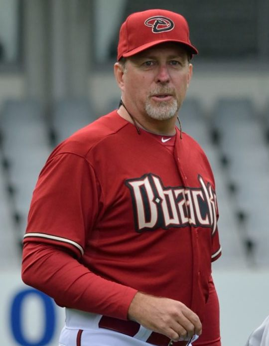 Baseball NZ, in partnership with the U.S. Embassy, hosted a free baseball clinic for kids aged 6 to 18. Members of the Arizona Diamondbacks Paul Goldschmidt and Craig Shipley led the clinic and Paul spoke to the kids after the event.